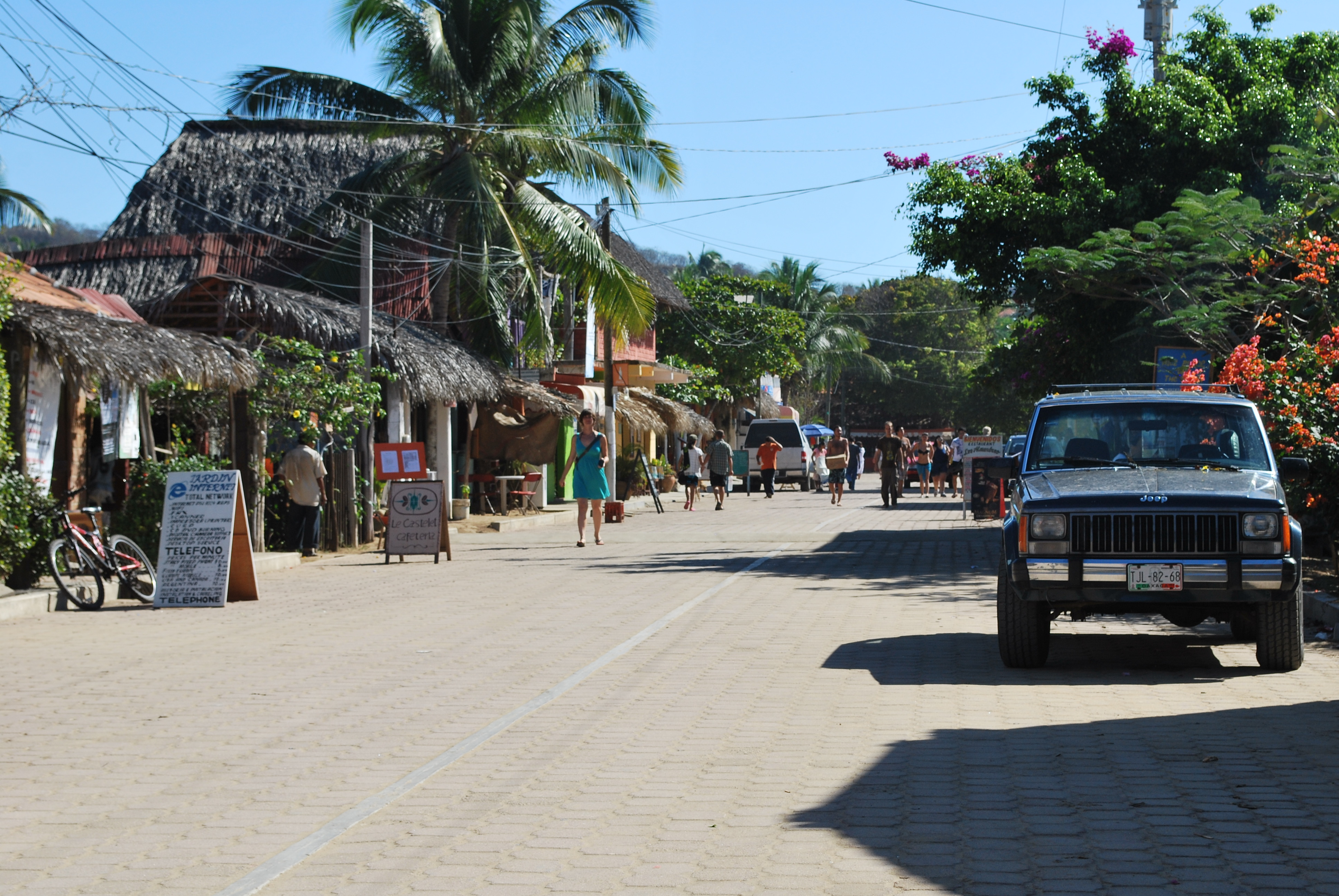 View of the Adoquin street in Zipolite Oaxaca Mexico